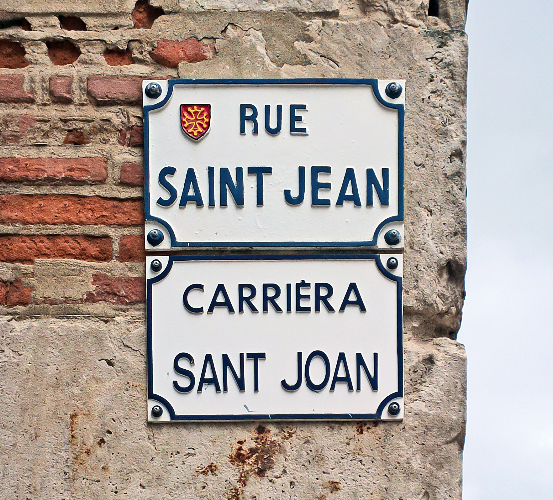 St.John street, in Toulouse - Street name sign. They have the particularity of being: in French and Occitan.